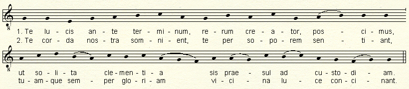 Own engraving from the Solesmes hymnarius